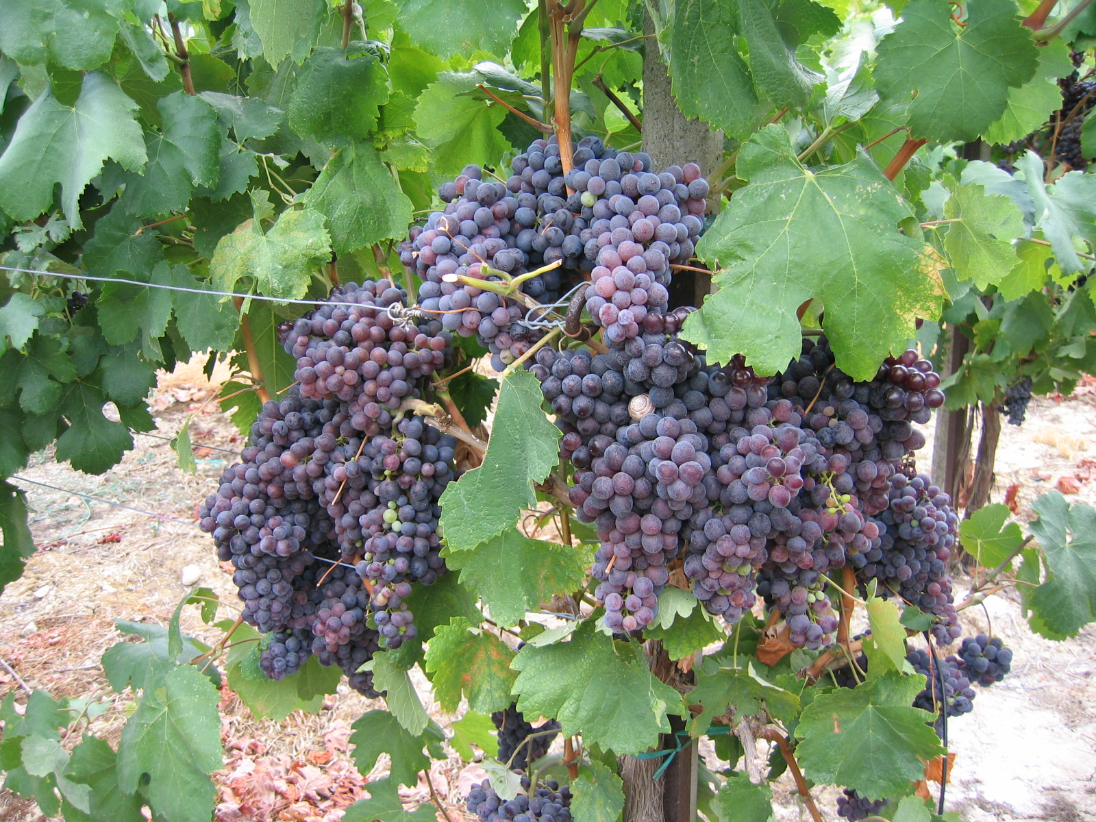 Kotsifali grapes grown on Crete